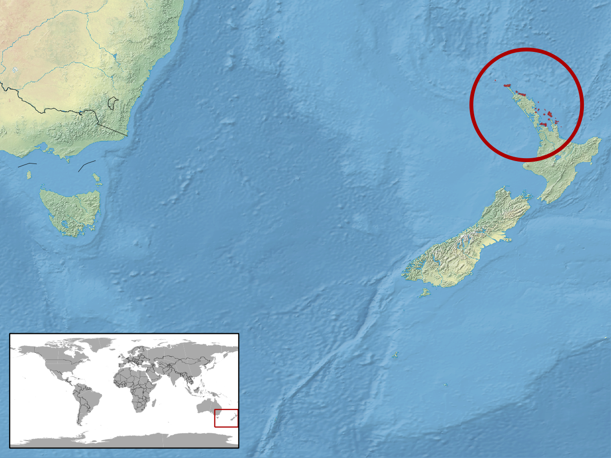 geographic distribution of Oligosoma suteri